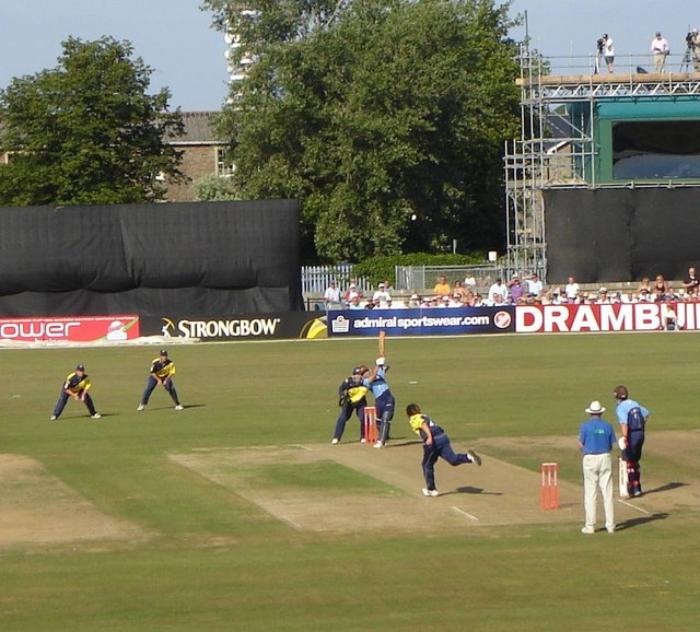 The County Ground, Ashley Down, Bristol Gloucestershire's cricket ground, located among college buildings and residential streets, close to the main A38 north out of Bristol.